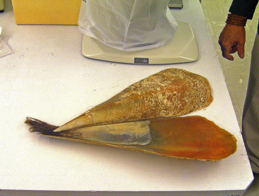 I took this photo at the Smithsonian on a recent visit to Washington, D.C